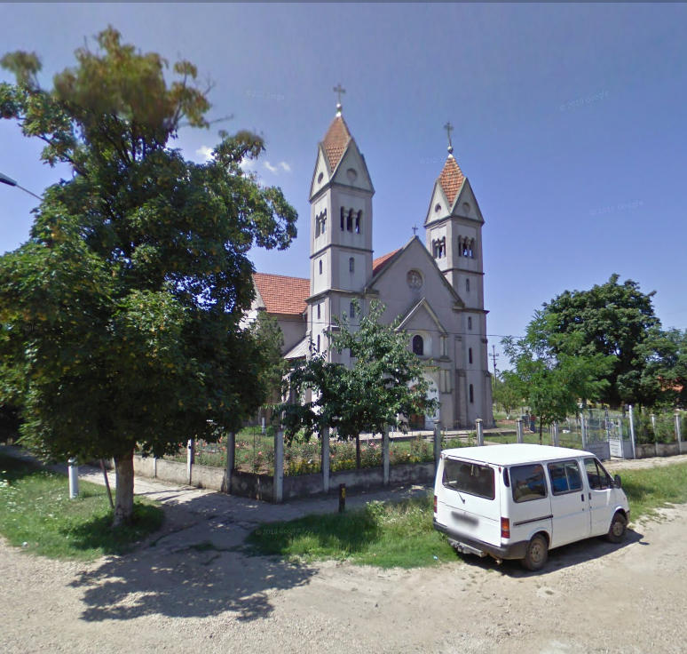 oradea